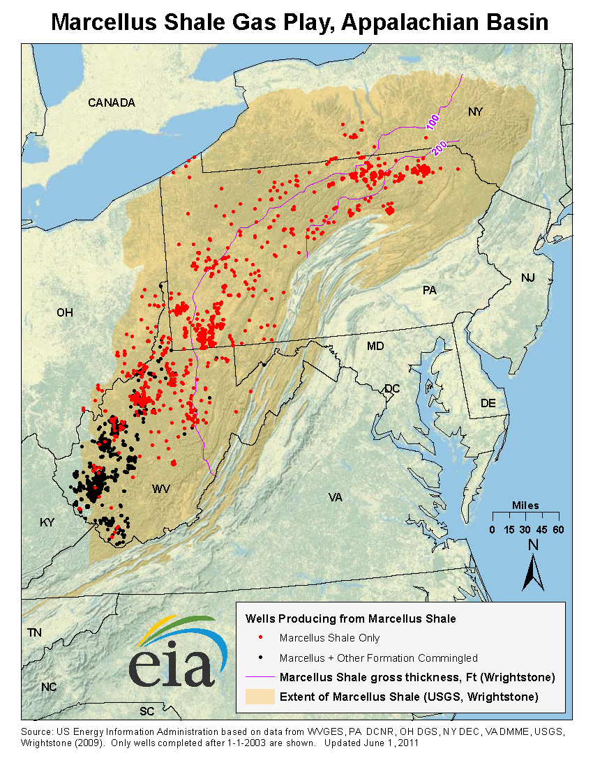 Producing gas wells in the Marcellus Shale gas play